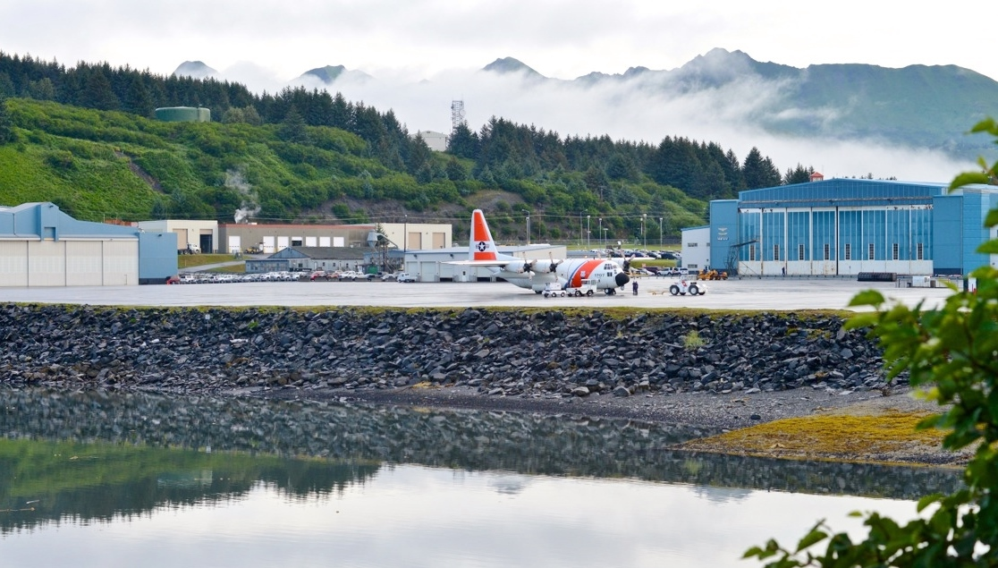 USCG Air Station Kodiak HC-130